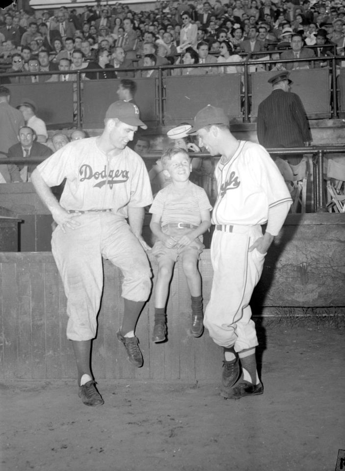 We see a little boy sitting between two baseball players. Hugh Casey played with the Brooklyn Dodgers and Jean-Pierre Roy with the Montreal Royals.